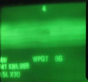 Weld root burn through shown as the dark spot in the middle of the film underneath number 4.